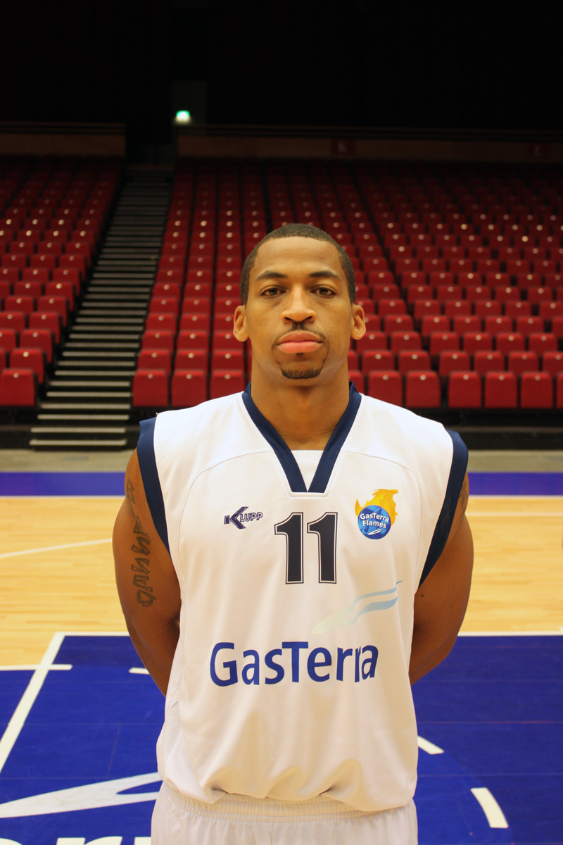 David Bell in the GasTerra Flames uniform for the 2011-2012 season